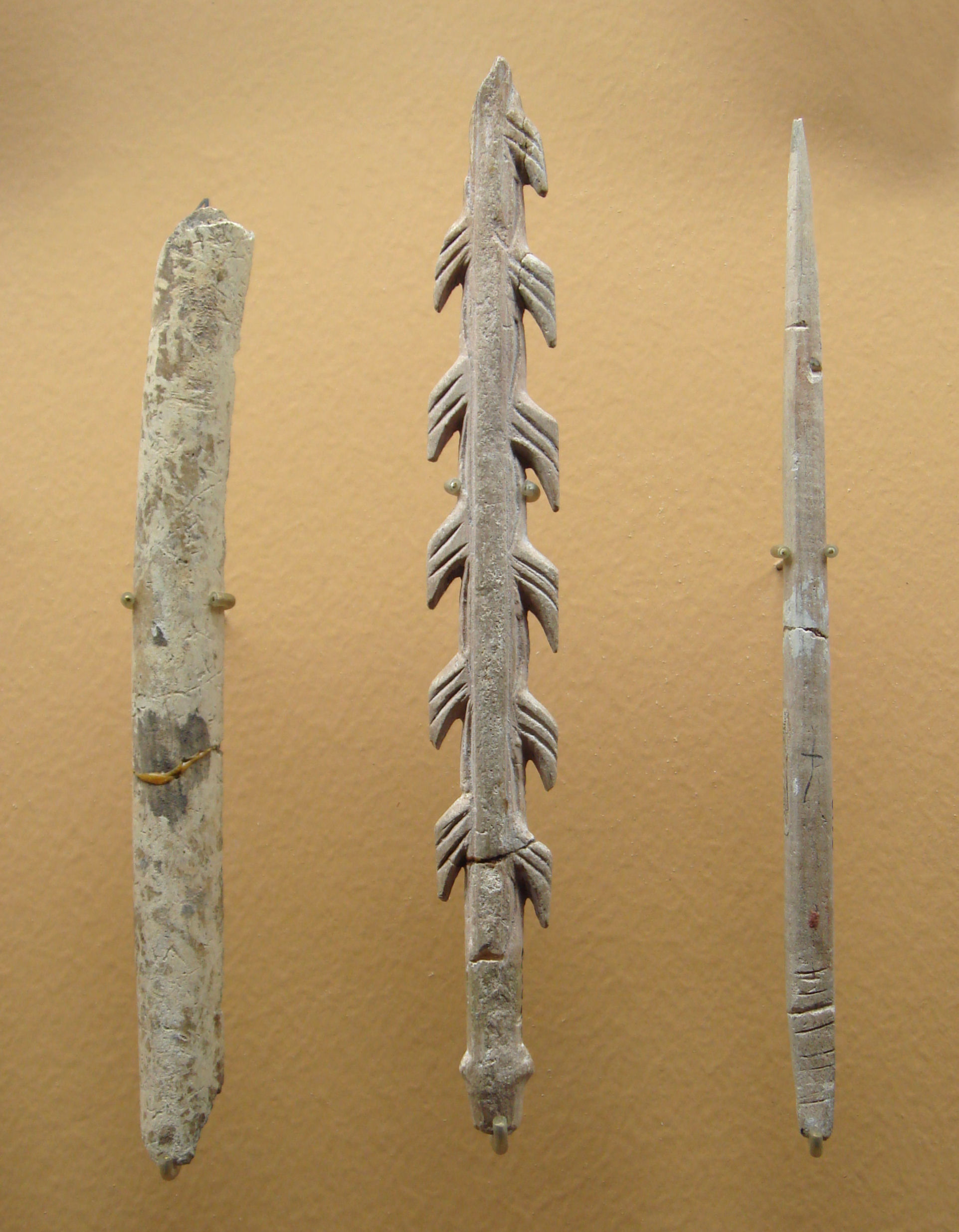 Magdalenian_tools_17000_9000_BCE_Abri_de_la_Madeleine_Tursac_Dordogne_France.